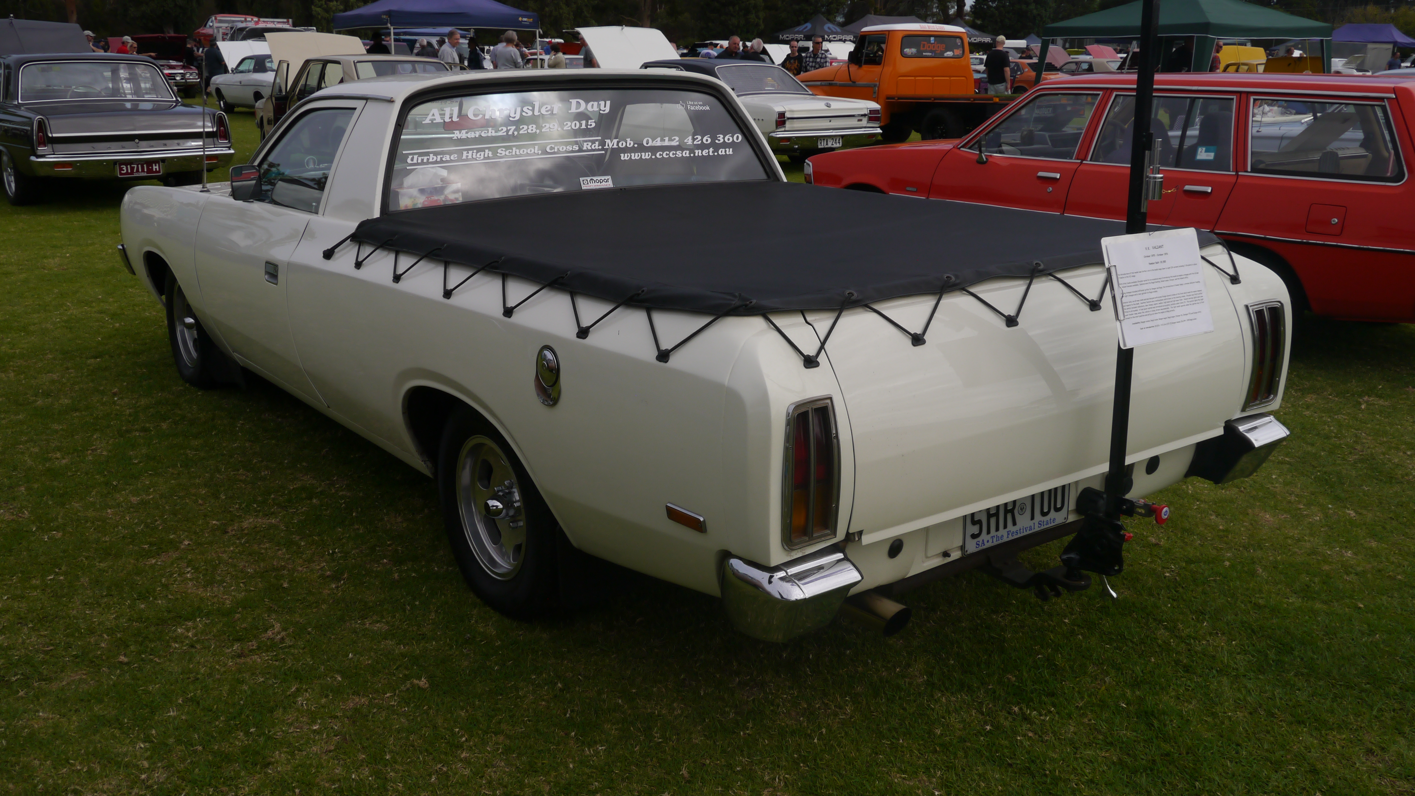 Dodge Utility